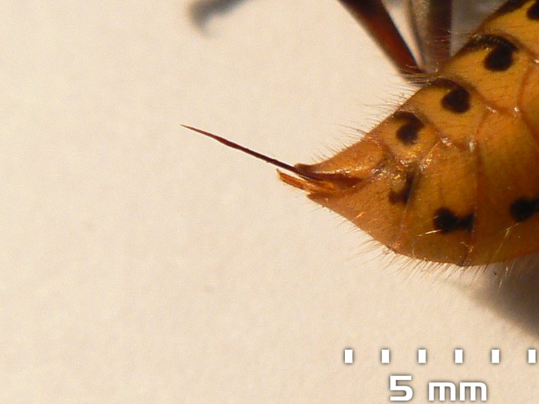 Stinger of an european hornet (V. crabro), which is strong enough to penetrate some of the weaker armor plates of virtually any arthropod, including wasps and other hornets.